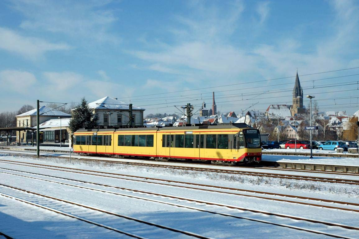 AVG car no. 865 of type GT8-100D, location: Bretten, train number: 85331